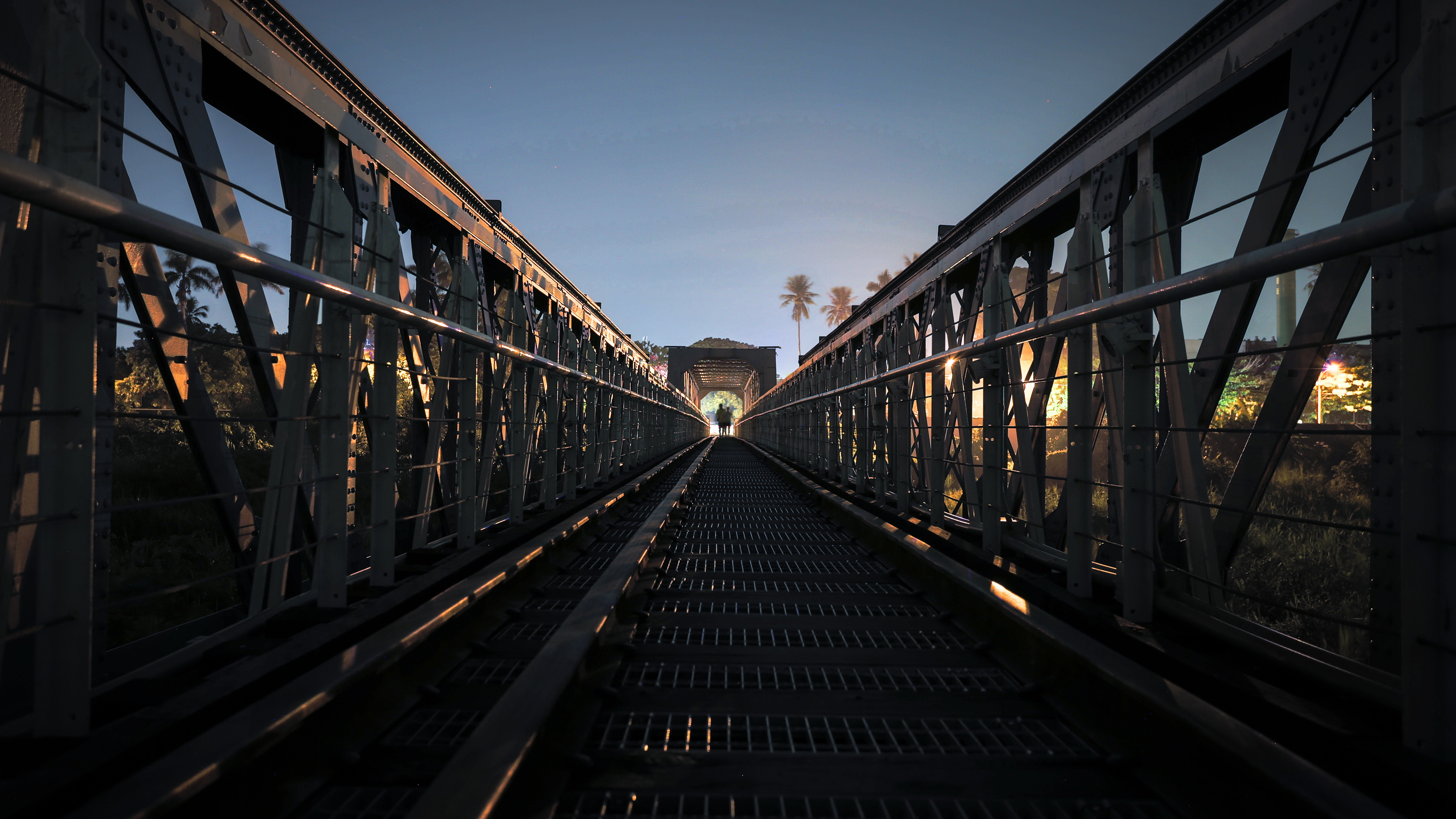 Huwei Steel Bridge, Huwei Township, Yunlin County, Taiwan.